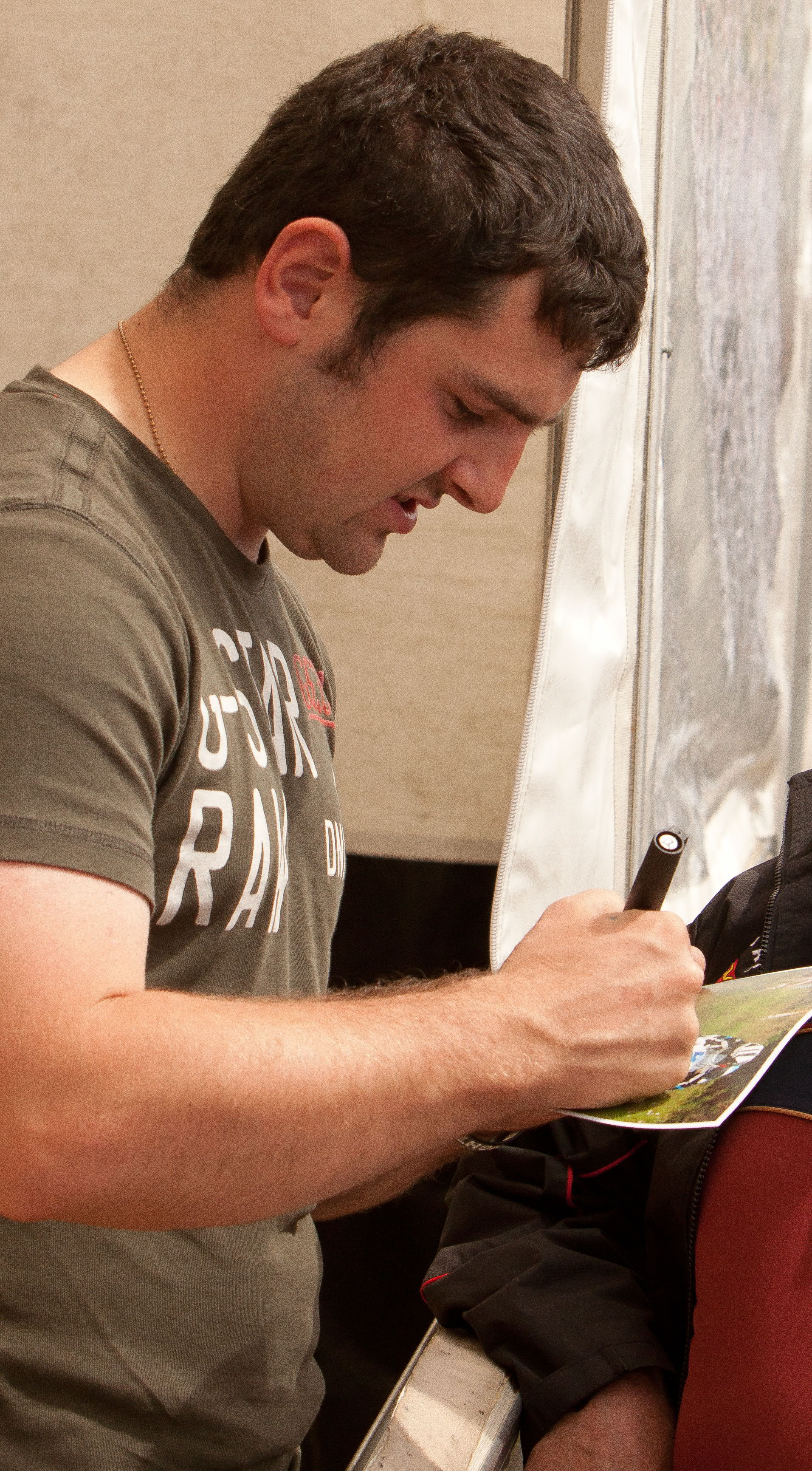 Irish motorcycle racer Michael Dunlop signing autographs at the Isle of Man TT in 2012